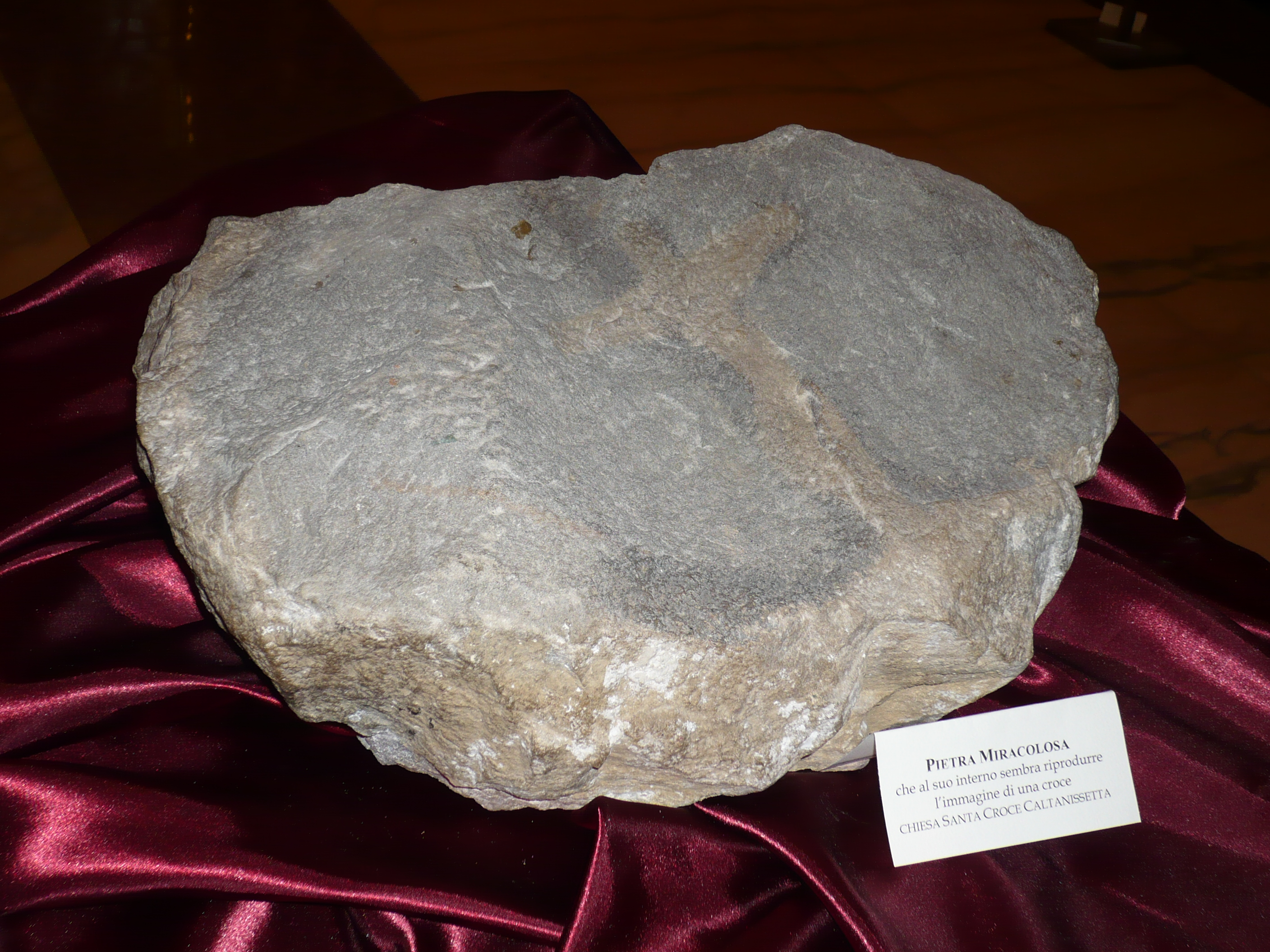 Caltanissetta - Image of the crucified on sandstone, not carved by human hand preserved as a relic in the Church of Santa Croce in CL